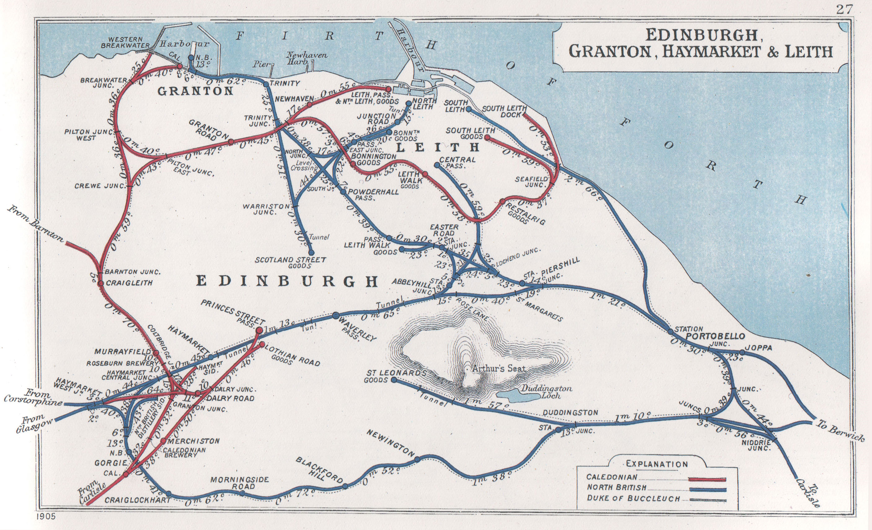 Railway Junctions in Edinburgh, Granton, Haymarket & Leith pre grouping